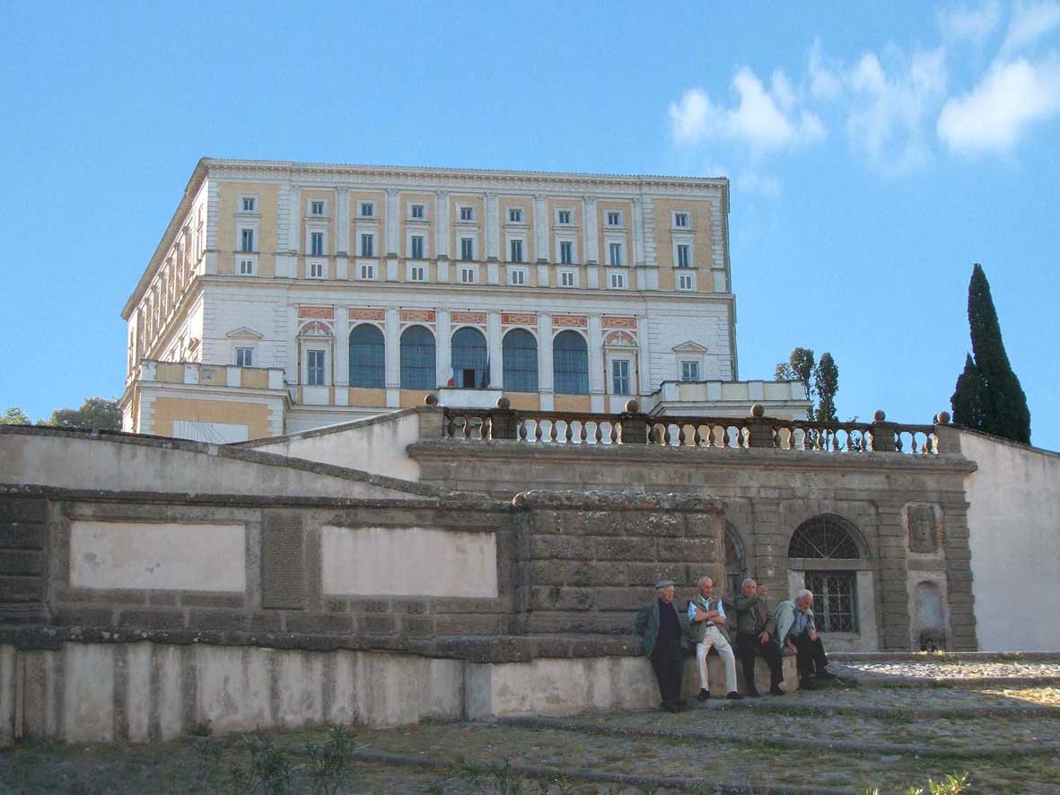 Villa Farnese in Caprarola, Italy.